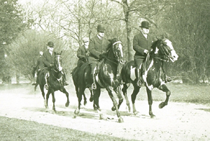 Horse riders on the Bridle Path in Prospect Park 300 p. x 200 p. in public domain